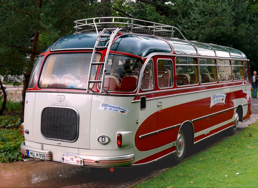 Kässbohrer Setra S 9 bus in Germany.